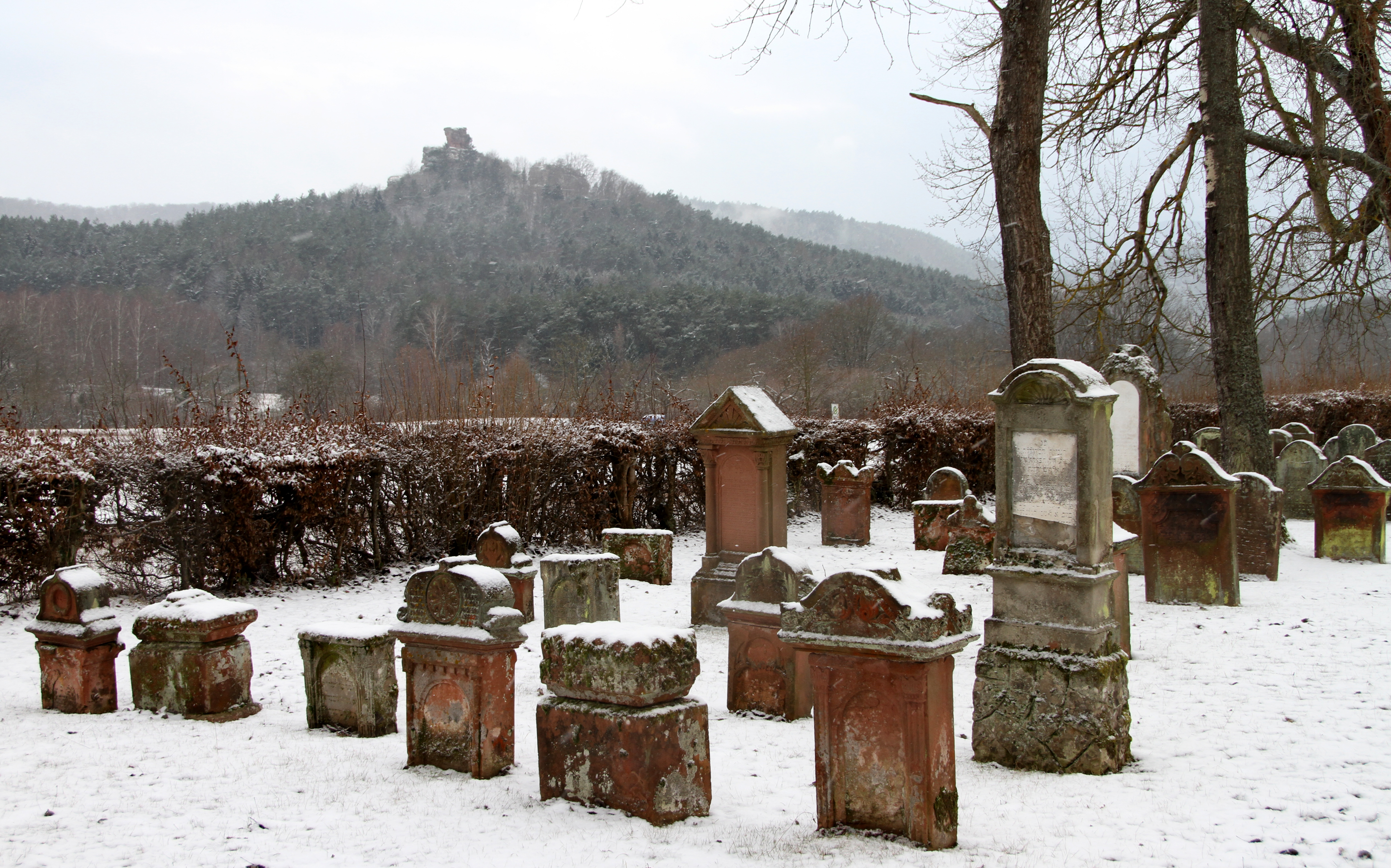 Jewish cemetery in Busenberg, Rhineland-Palatinate, Germany